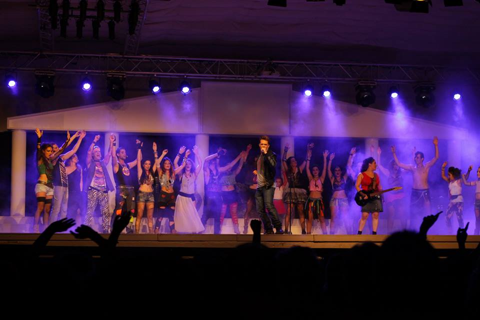 Photo of WWRY